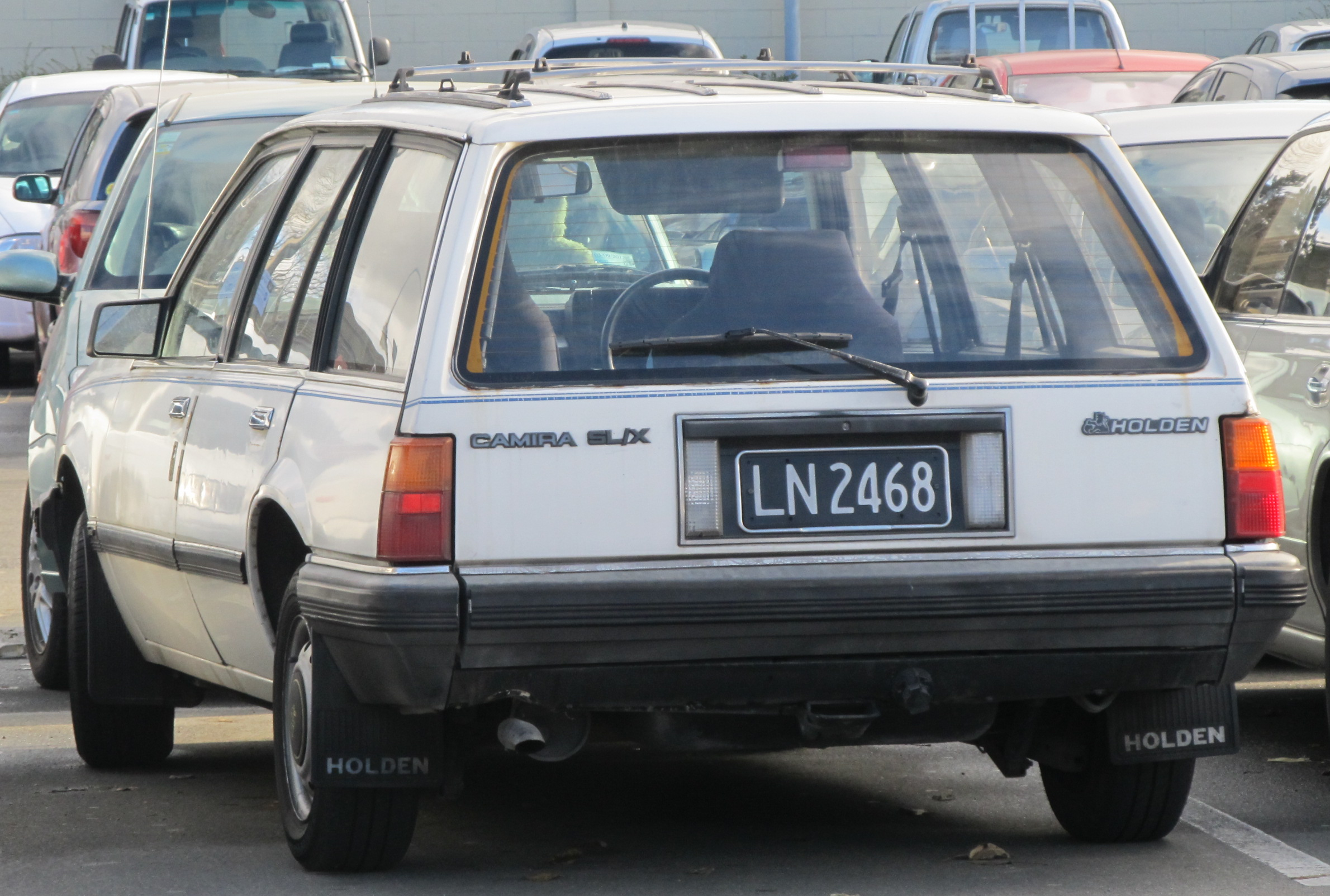 LN2468 Always happy to see another Camira, as they are rare cars and probably the closest I'll get to seeing a MkII Cavalier... This one was in good nick though, if a bit badly parked!